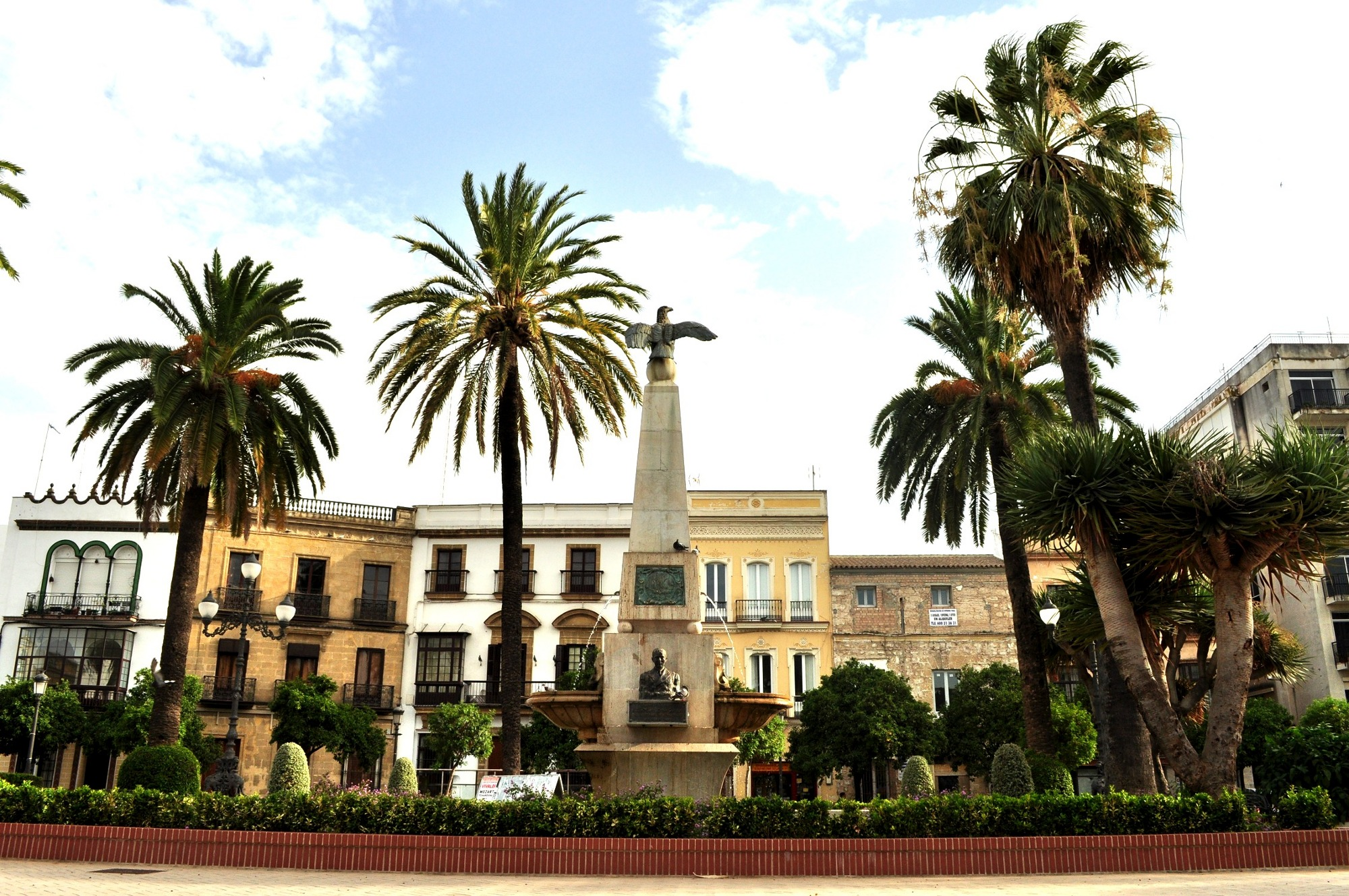 Angustias Square, Jerez